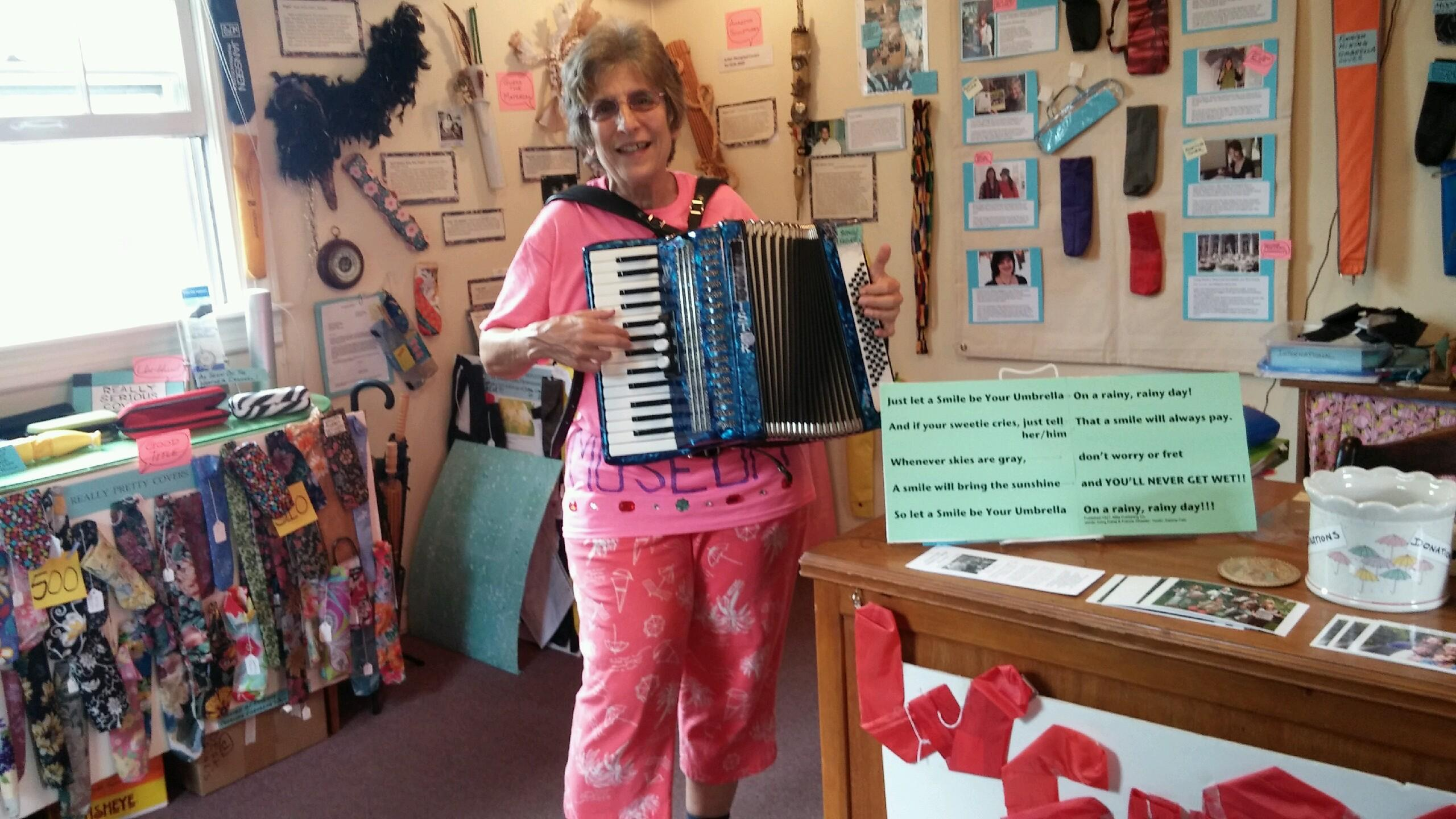 Nancy 3. Hoffman is shown playing an accordion while singing Let a Smile Be Your Umbrella in the Umbrella Cover Museum in Peaks Island, Maine, United States